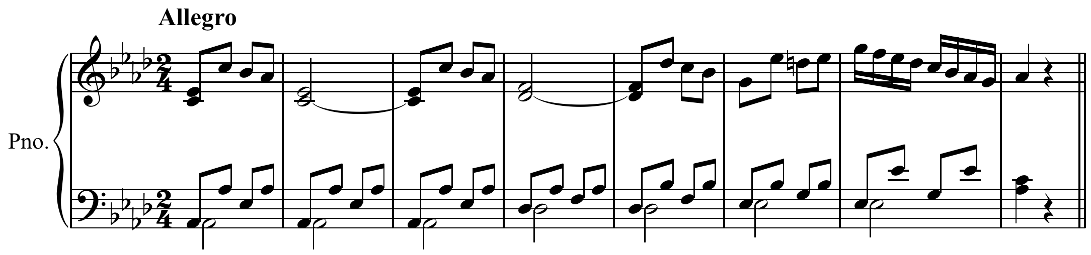 The intro to "One Horse Open Sleigh".